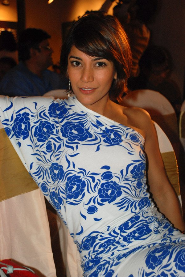 Koel Purie at a 2009 book reading